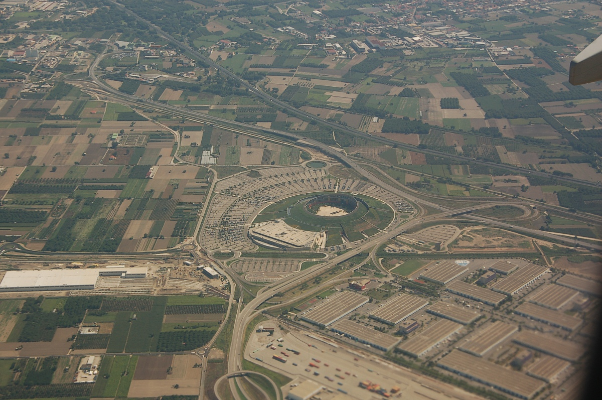 Naples 2010